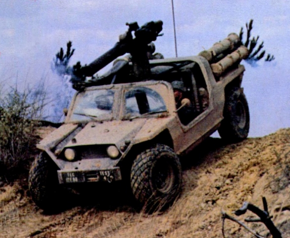 XR311 rugged terrain tests